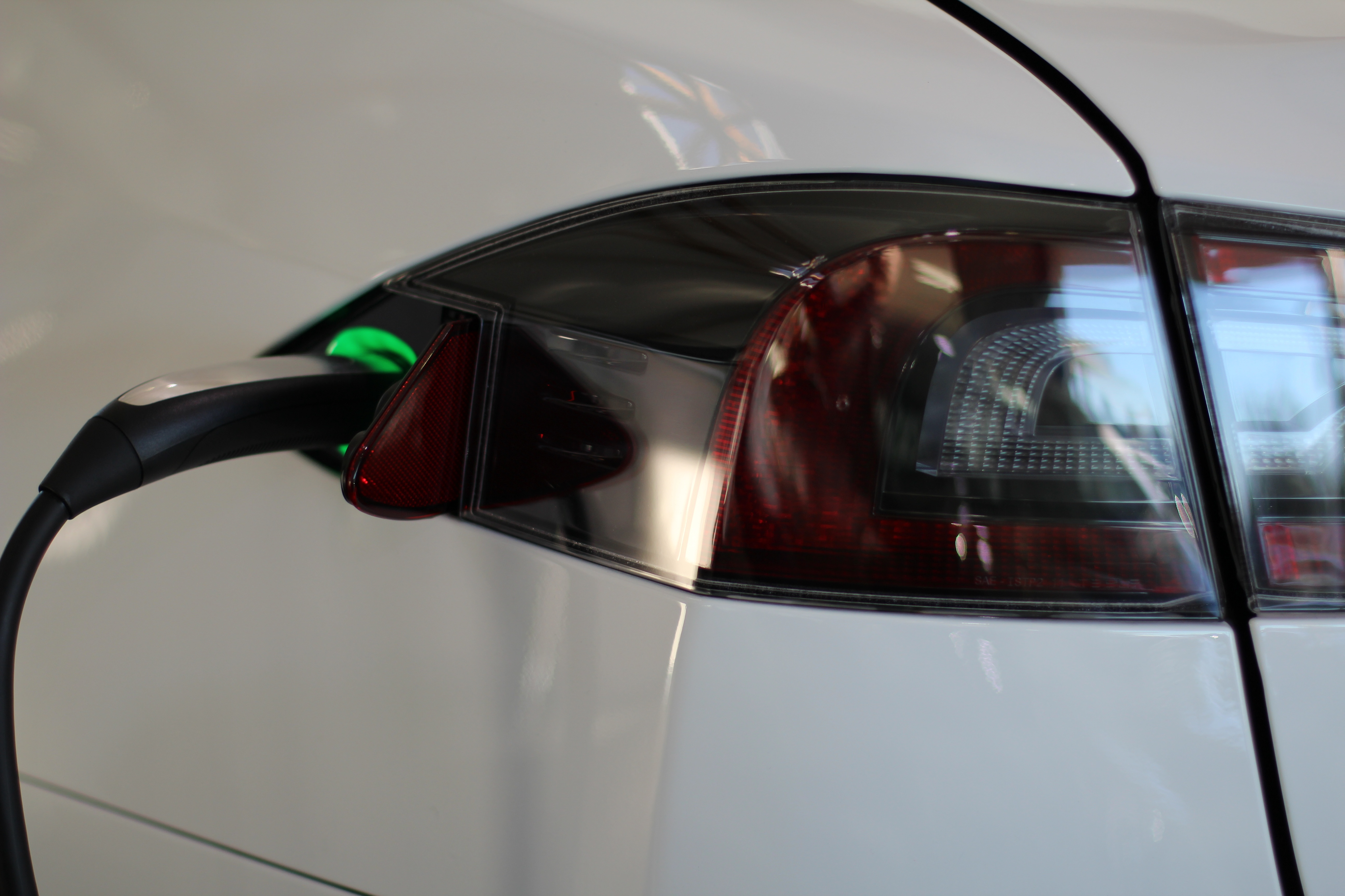 The Model S charge port is located/hidden behind the left rear taillight.